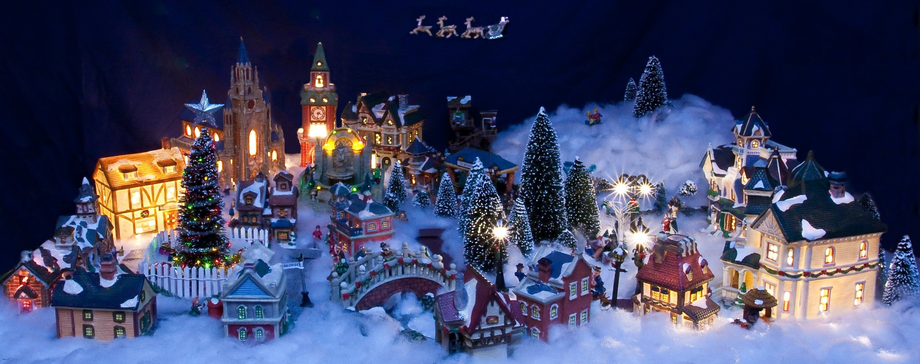 Miniature Christmas Village illuminated at night.